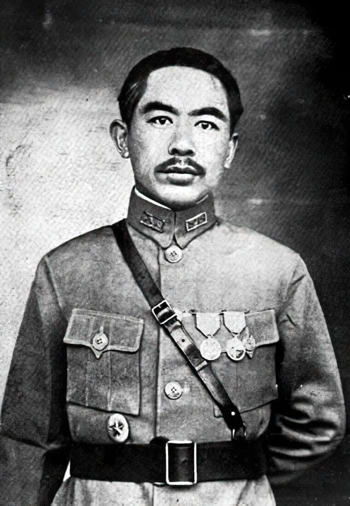 Manchurian governor of Xinjiang Sheng Shicai